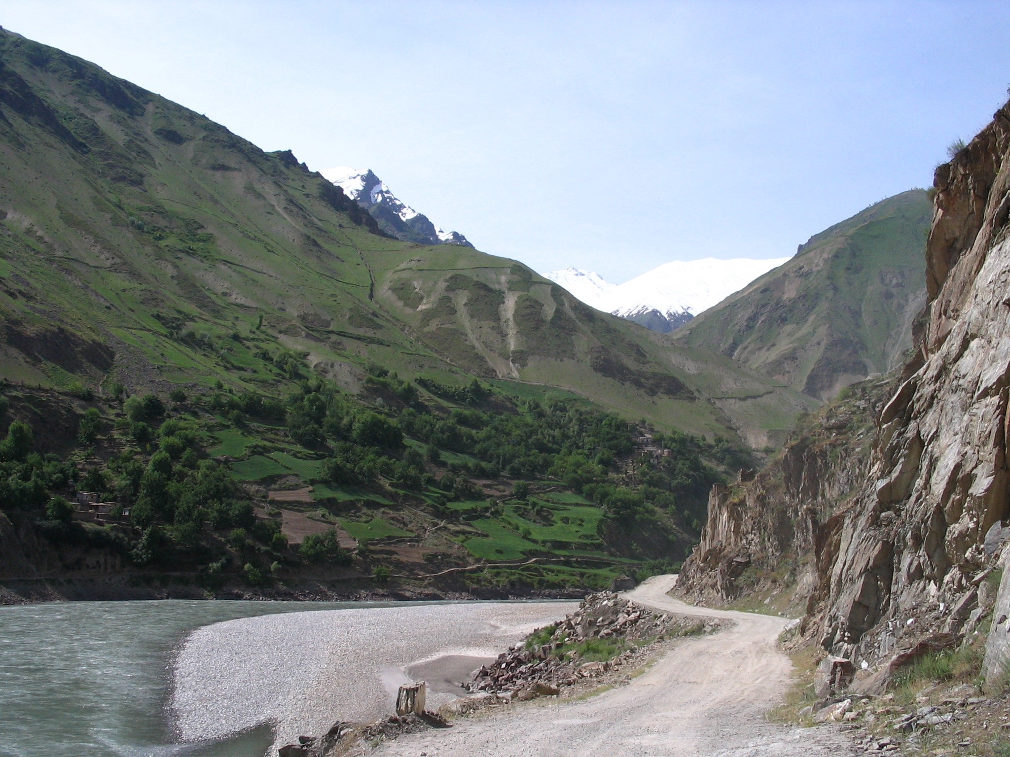 Up the Panj Valley from Khalaikhun to KhasKhorog